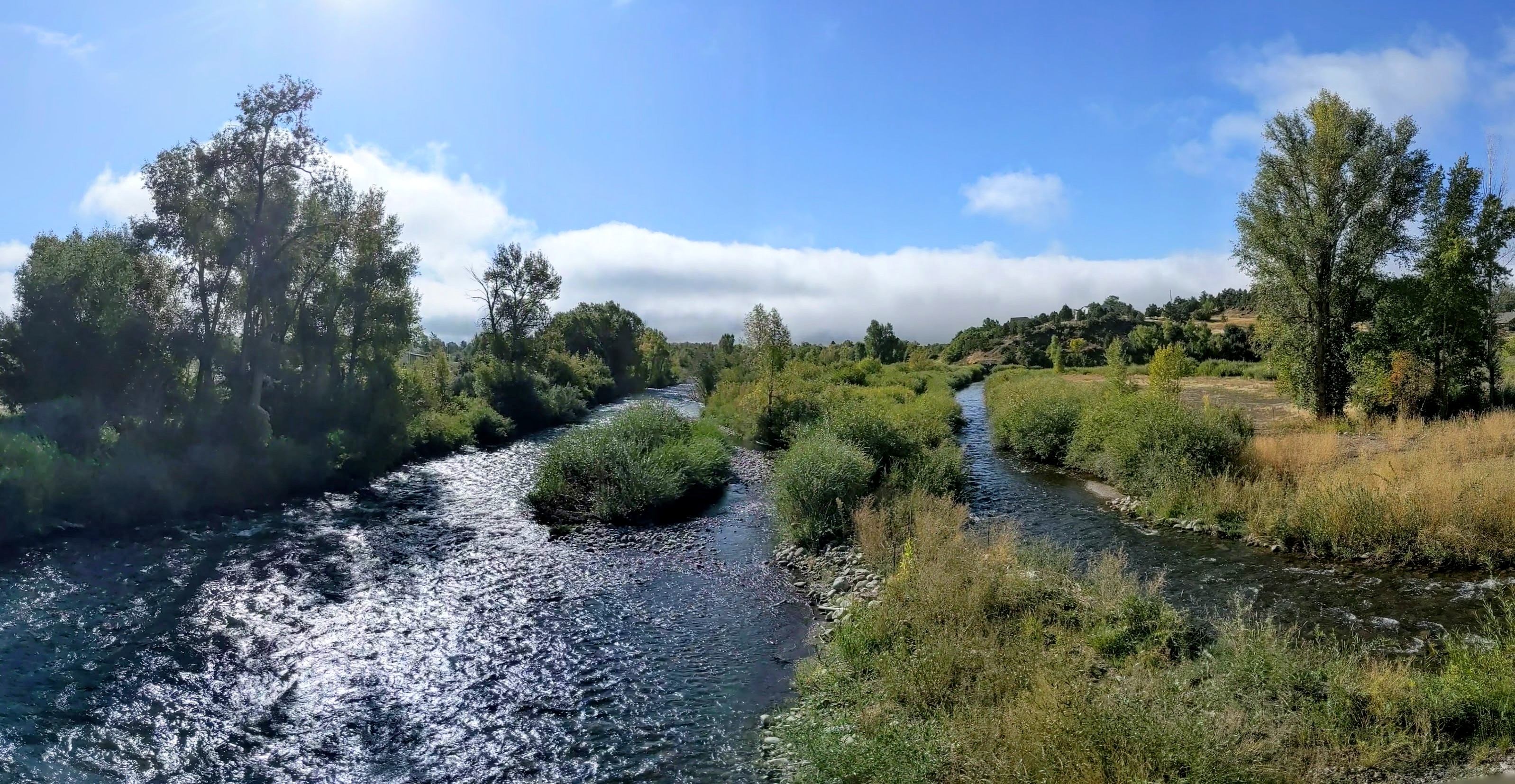 Los Pinos River looking south, at business 160, Bayfield Parkway, in Bayfield, Colorado